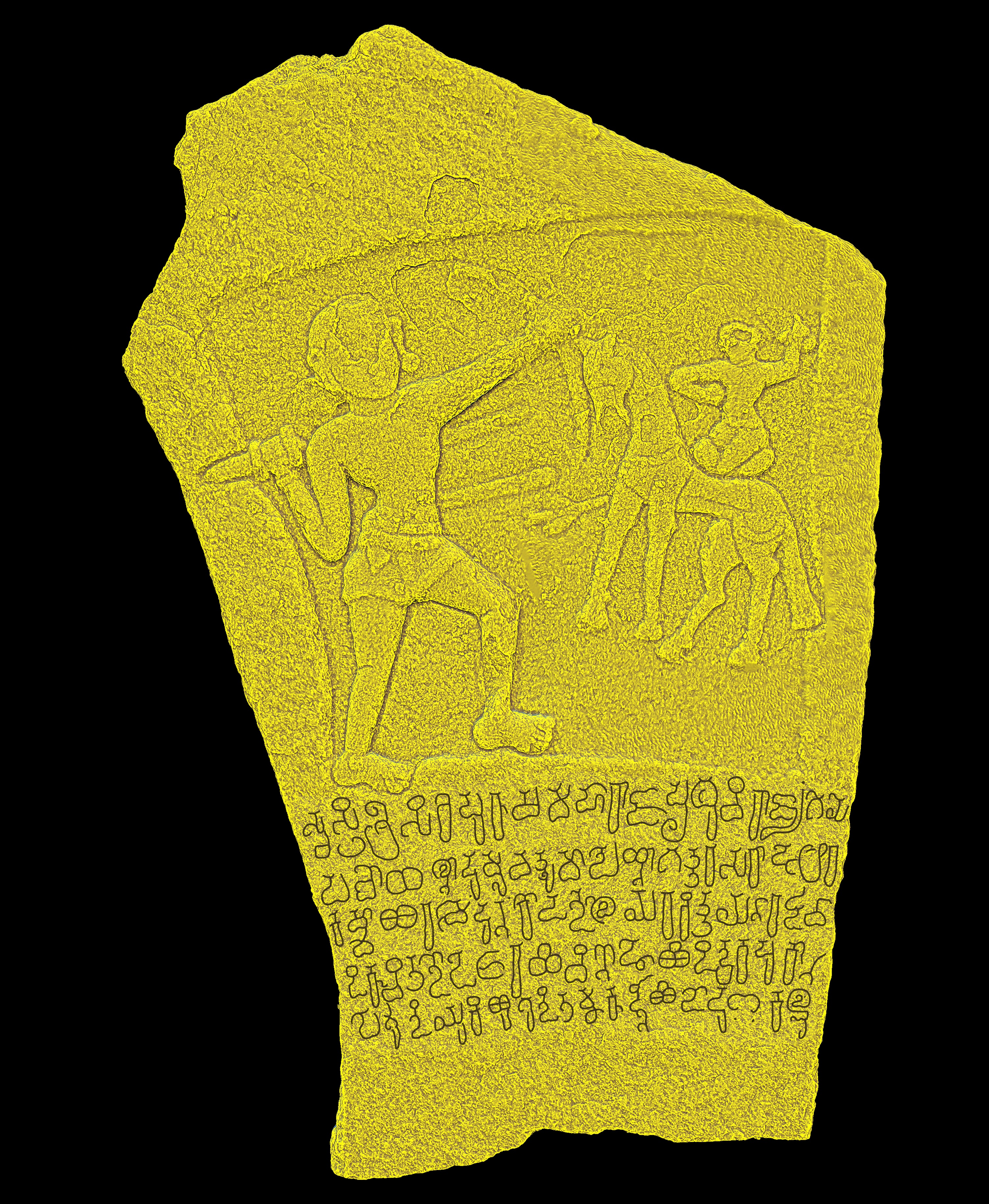 This a digital image from a high-resolution 3D scan model of the 750CE Hebbal-Kittayya veeragalu with inscription. The model has been digitally rendered and the characters of the inscription enhanced for improved appearance and readability.